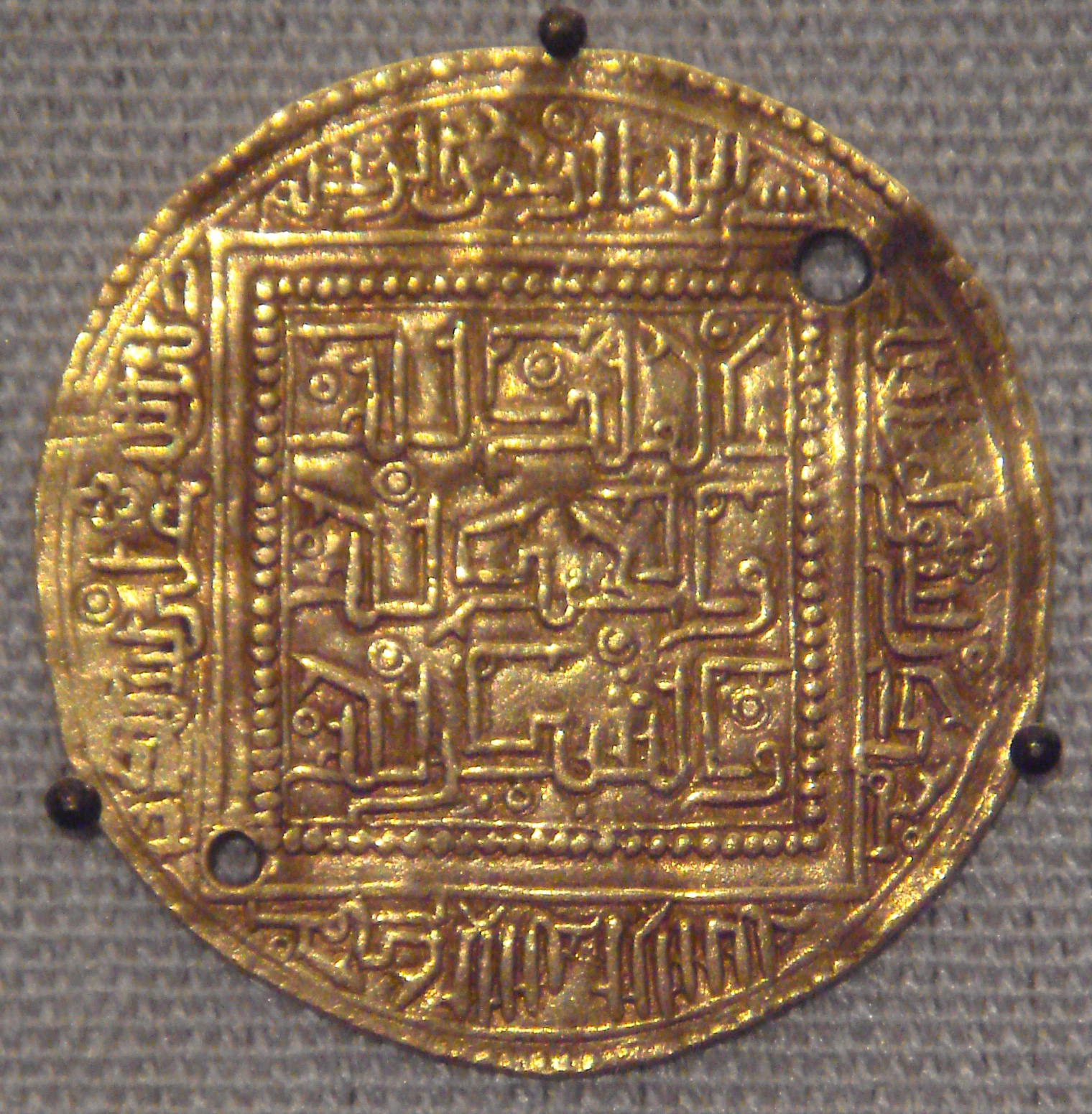 Hafsids_Bougie_Algeria_1249_1276_ornemental_Kufic